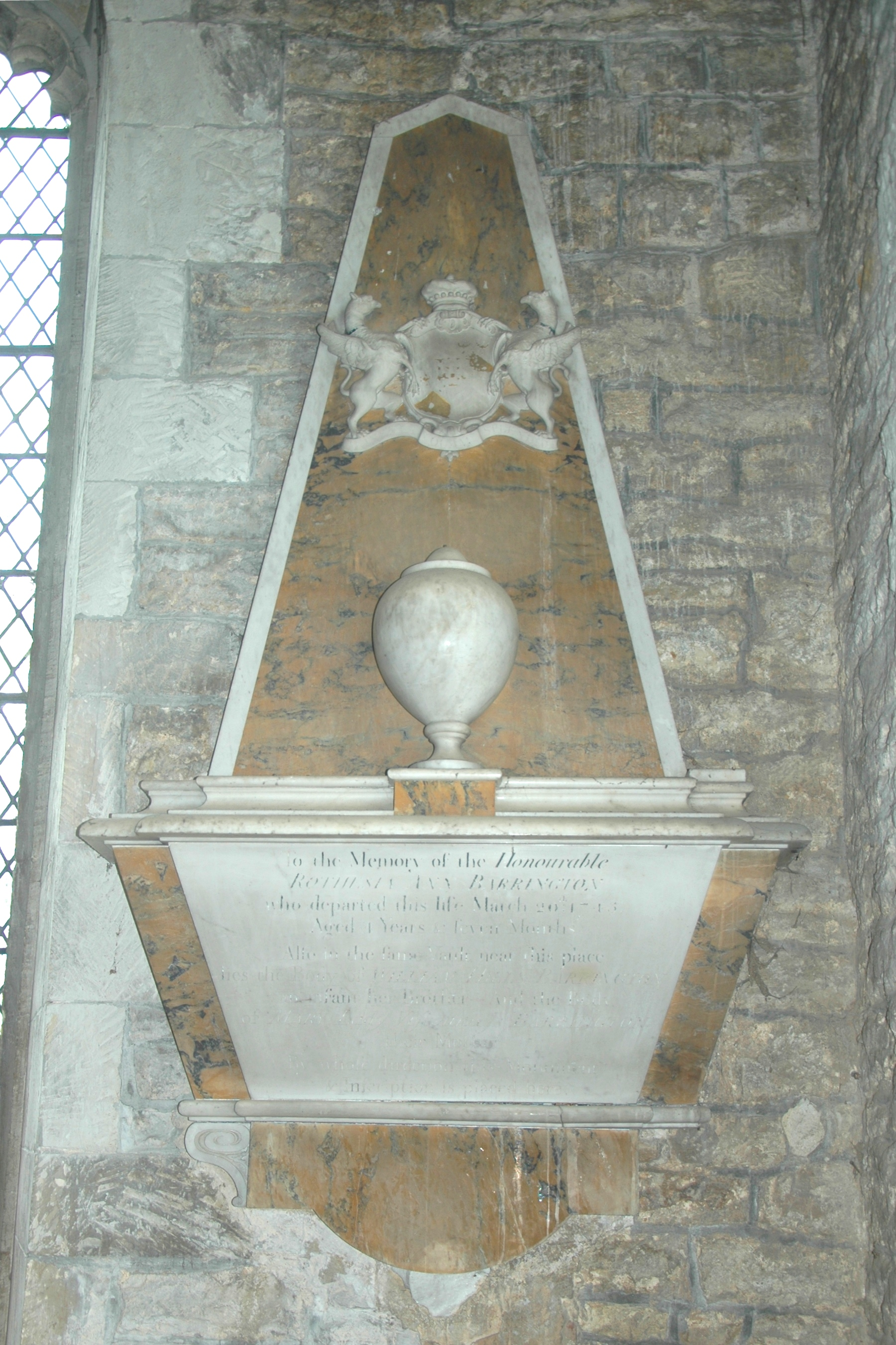 Church of England parish church of St Andrew, Shrivenham, Vale of White Horse: marble and polished brown limestone monument to Rothesia Barrington, died 1745